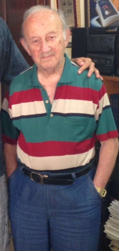 Rober Haddedjian